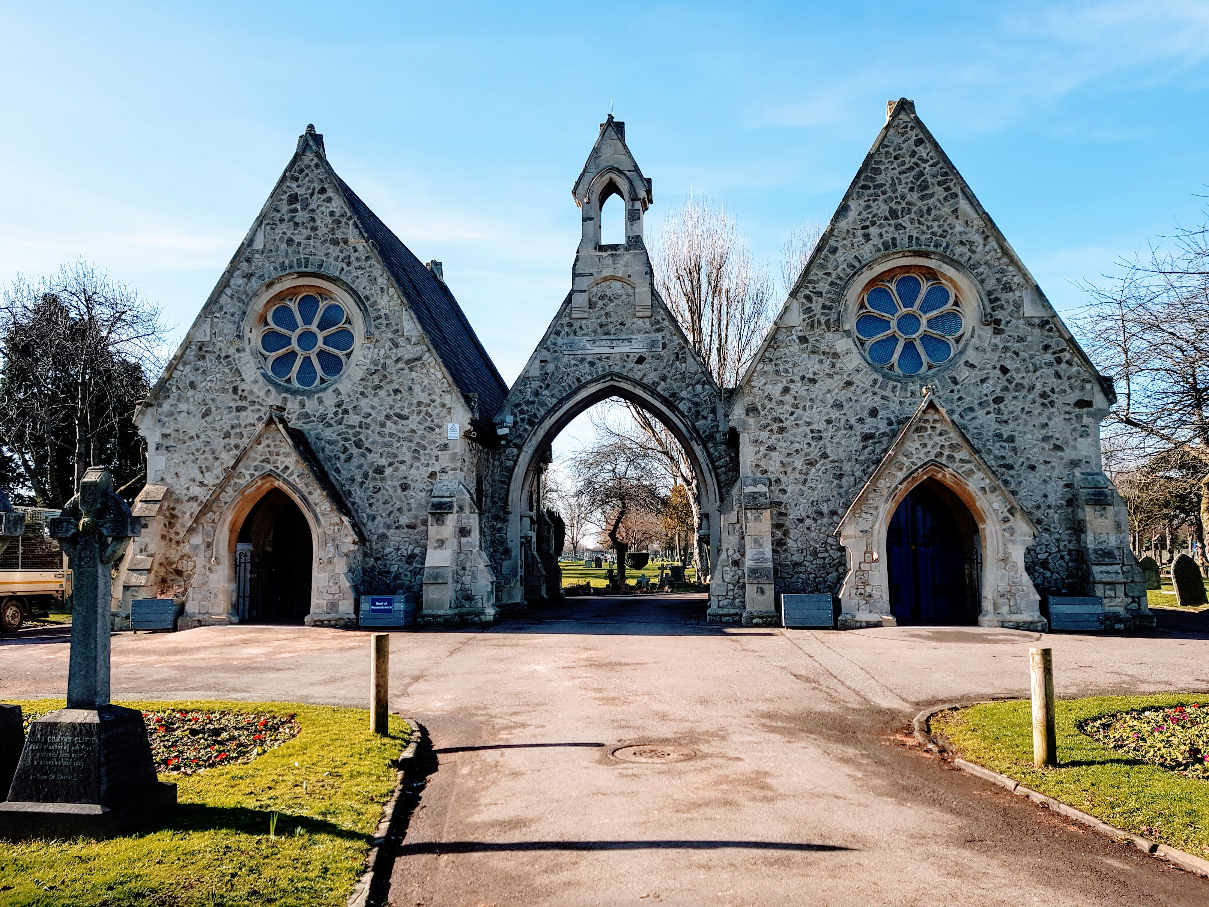 Romford Cemetery (sometimes called Oldchurch Road Cemetery), Romford, London Borough of Havering